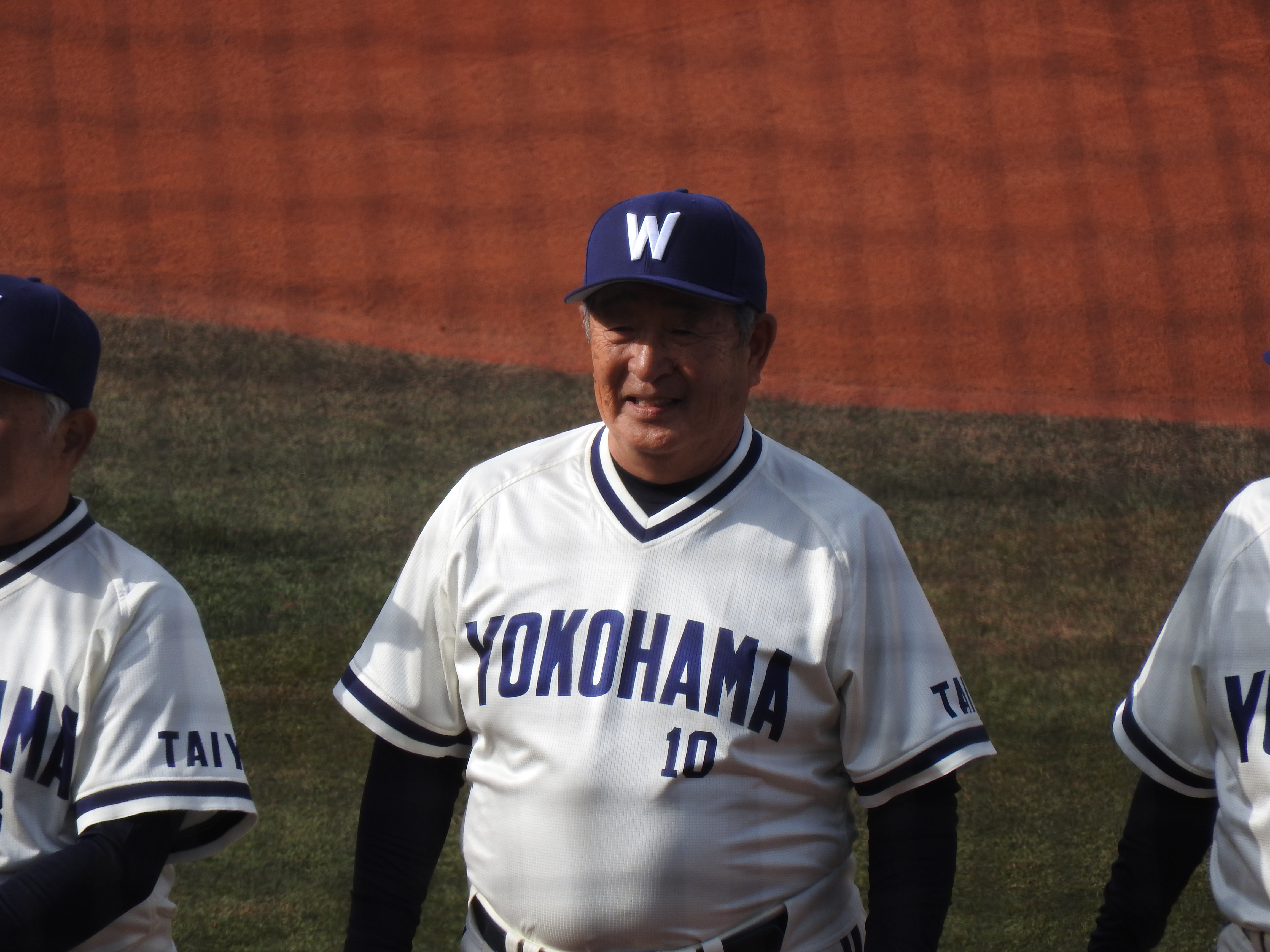 baseball player